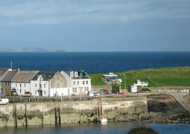 Harbour wall The harbour wall at low tide. To the right can be seen the slipway. Beyond that is the main car park and the path to the headland.